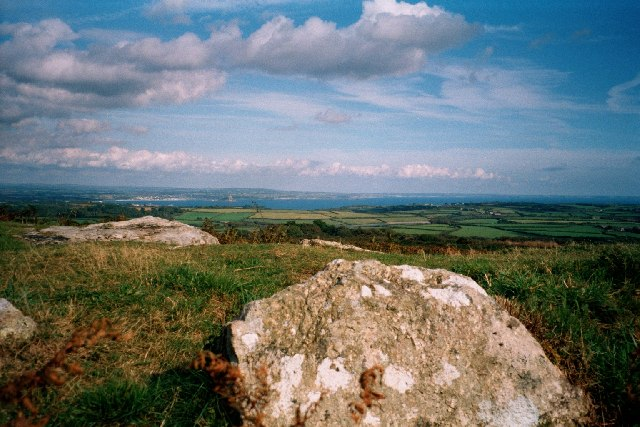 Sancreed Beacon. The stones are cists, Bronze Age burial mounds. This site, which is free to visit and has a small car-park nearby, is maintained by the Cornwall Heritage Trust . As the background of the picture shows, you can see Mount's Bay (including St Michael's Mount) and the Lizard from the summit.